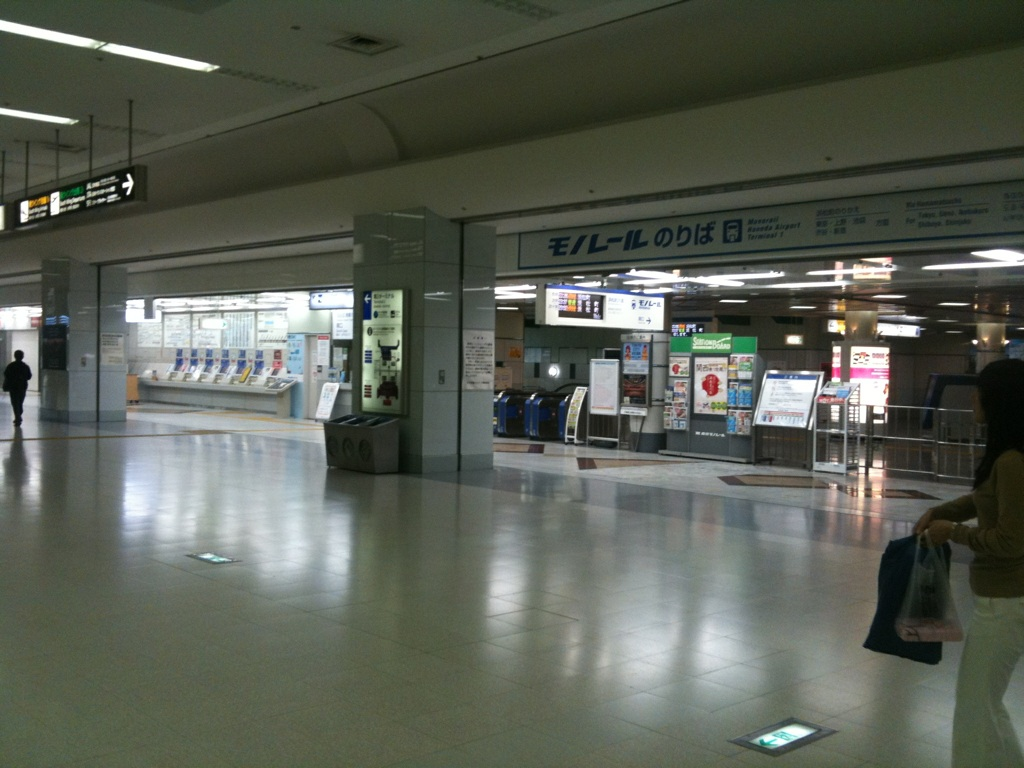 Haneda Airport Terminal 1 Monorail Station